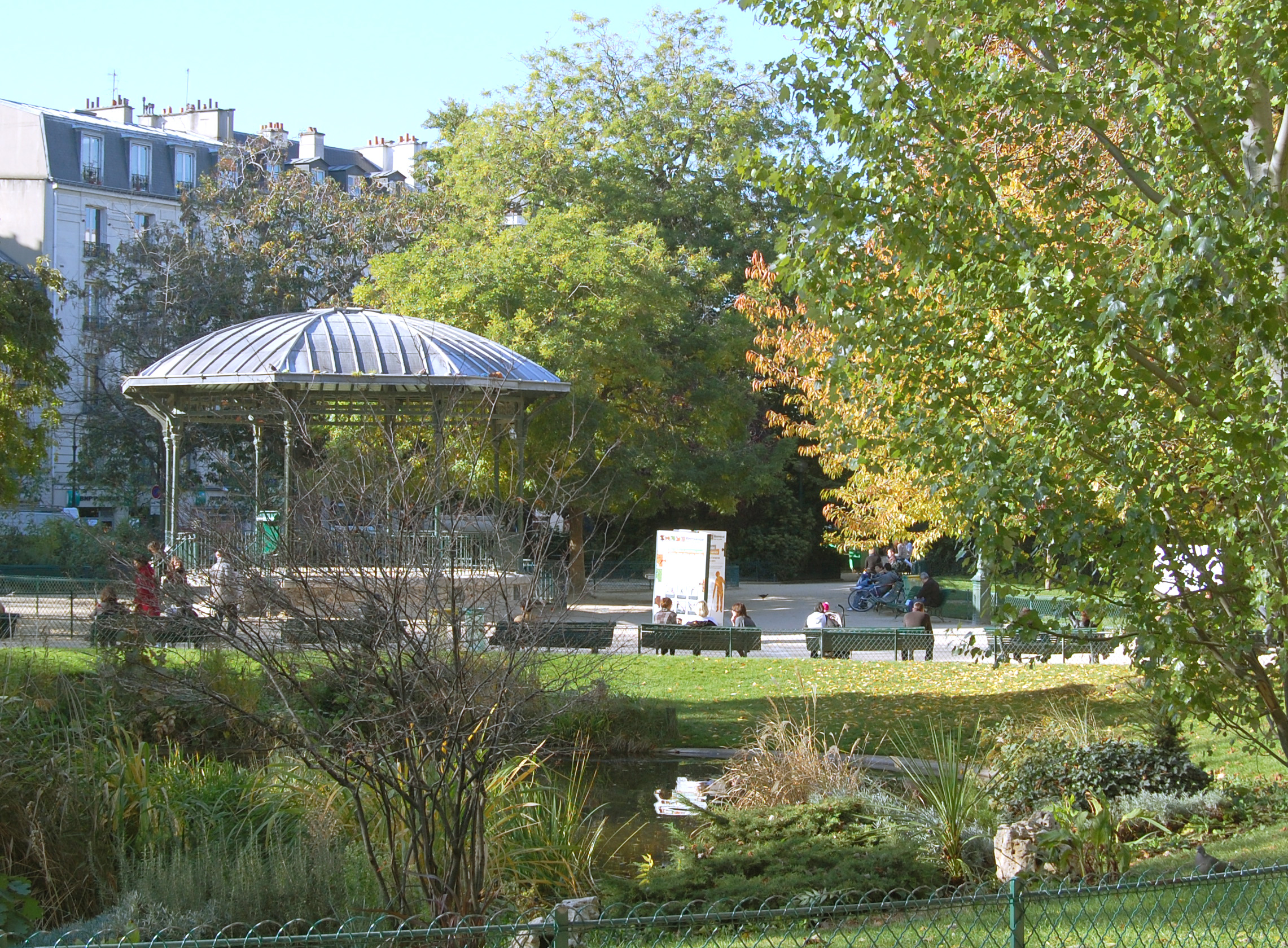 Square du Temple, Marais, Paris, France